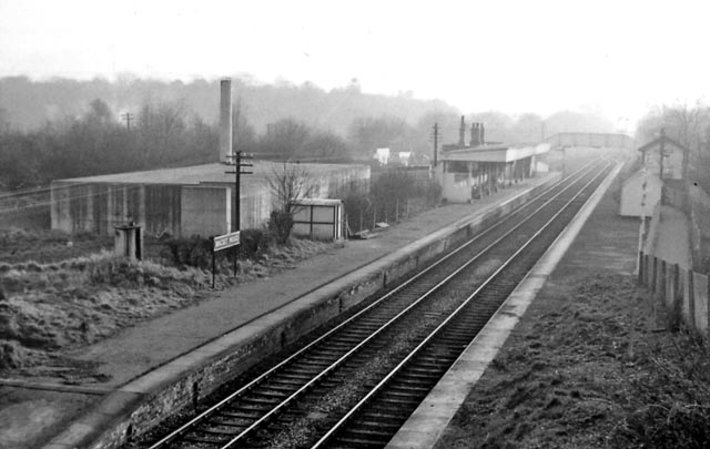 Bricket Wood Station. View SW, towards Watford Junction; ex-LNW Watford Jct. - St Alban's (Abbey) branch.